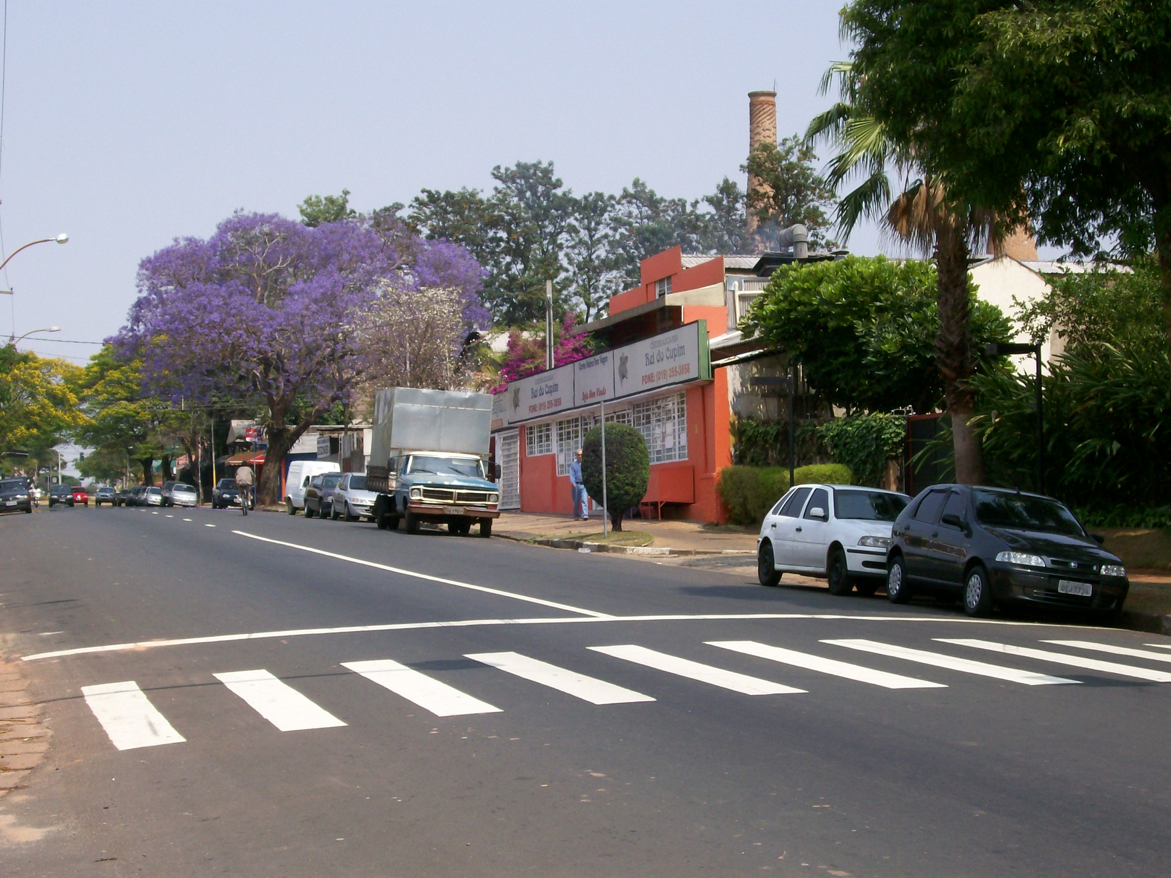 Avenue in Campinas, Brazil